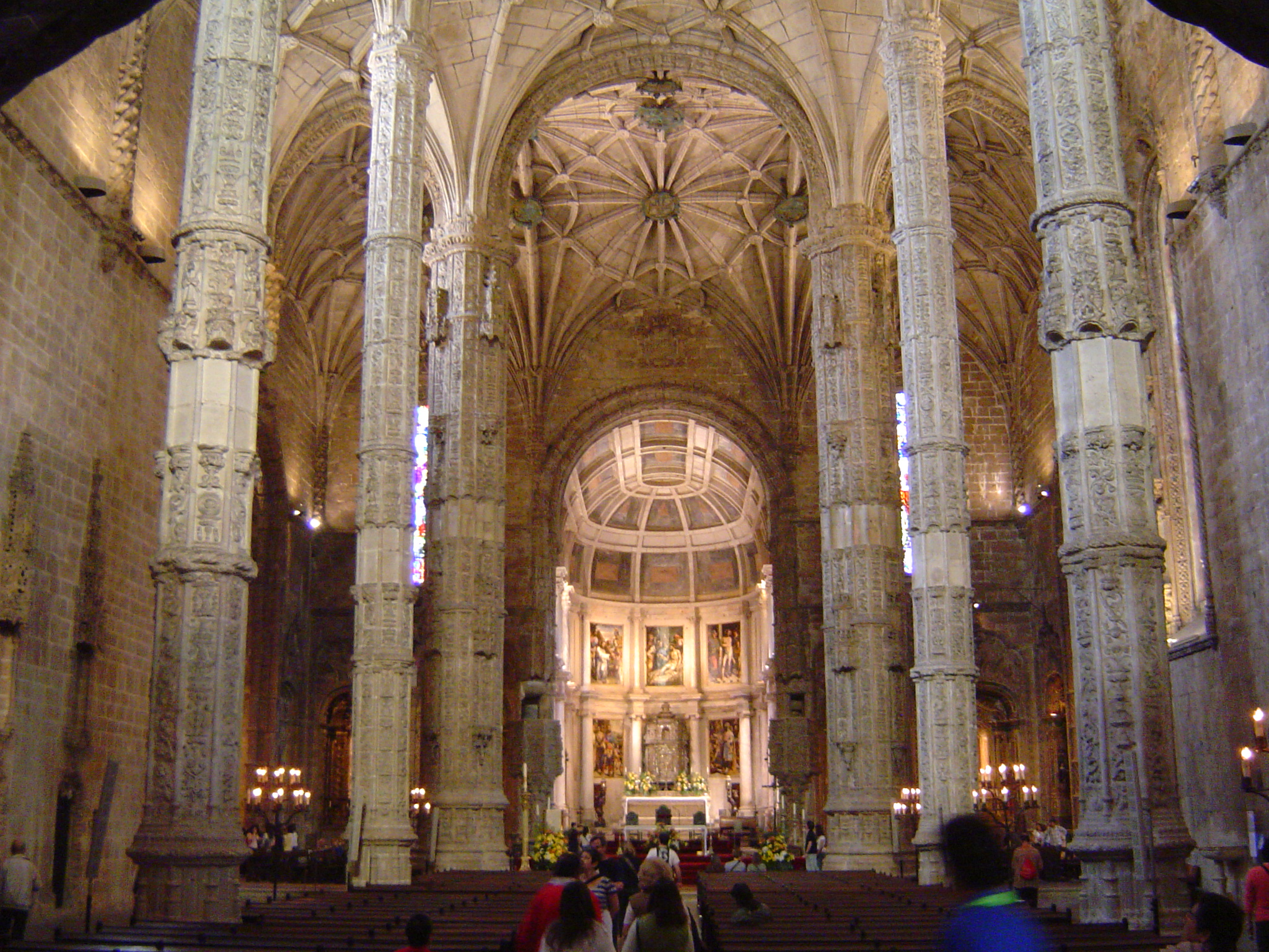 Nave of Jeronimos Monastery, Lisbon, Portugal